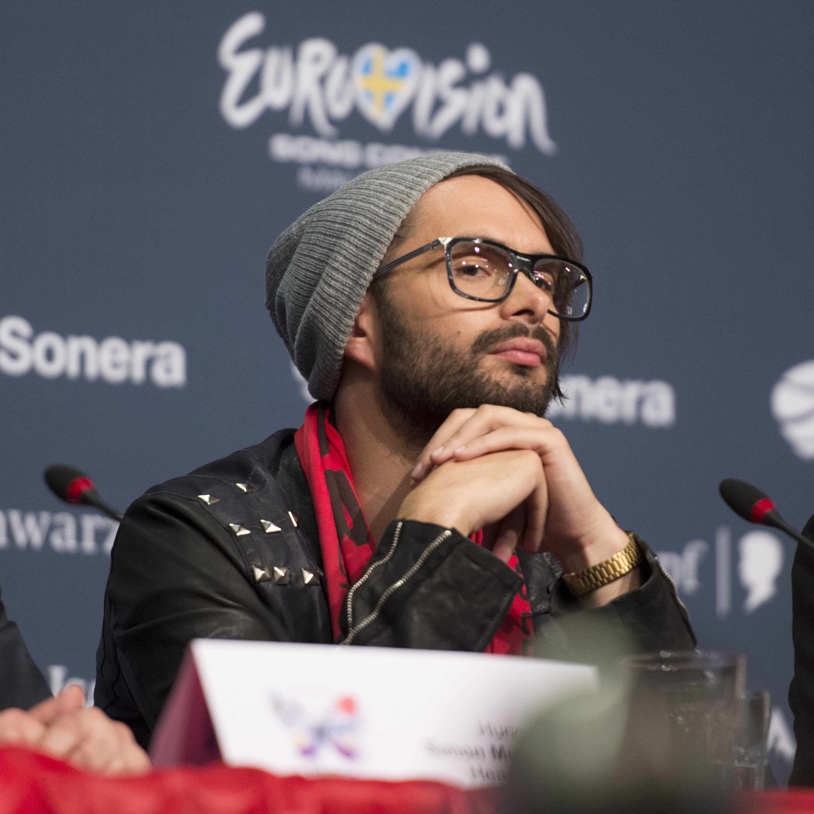 ByeAlex at a press conference during the Eurovision Song Contest 2013 Malmö. (Help translate this text)